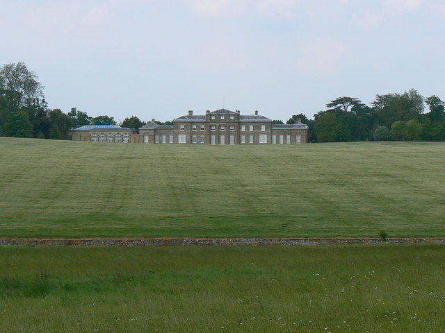 Hackwood House - south facade